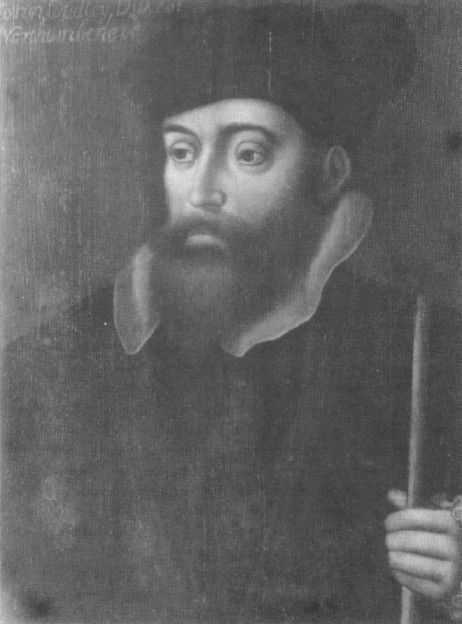 John Dudley, Earl of Warwick and Duke of Northumberland (1504–1553). English statesman. Panel painting at Penshurst Place, Kent, U.K. (see: Jordan, W.K.; M.R. Gleason: The Saying of John Late Duke of Northumberland Upon the Scaffold, 1553 Harvard Library 1975, pp. 71–72)